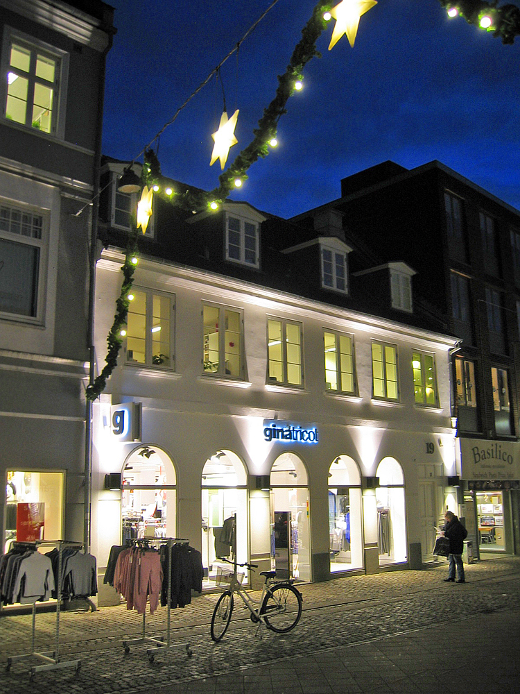 Roskilde, 19, Skomagergade St., the house where Kristian Hude once lived